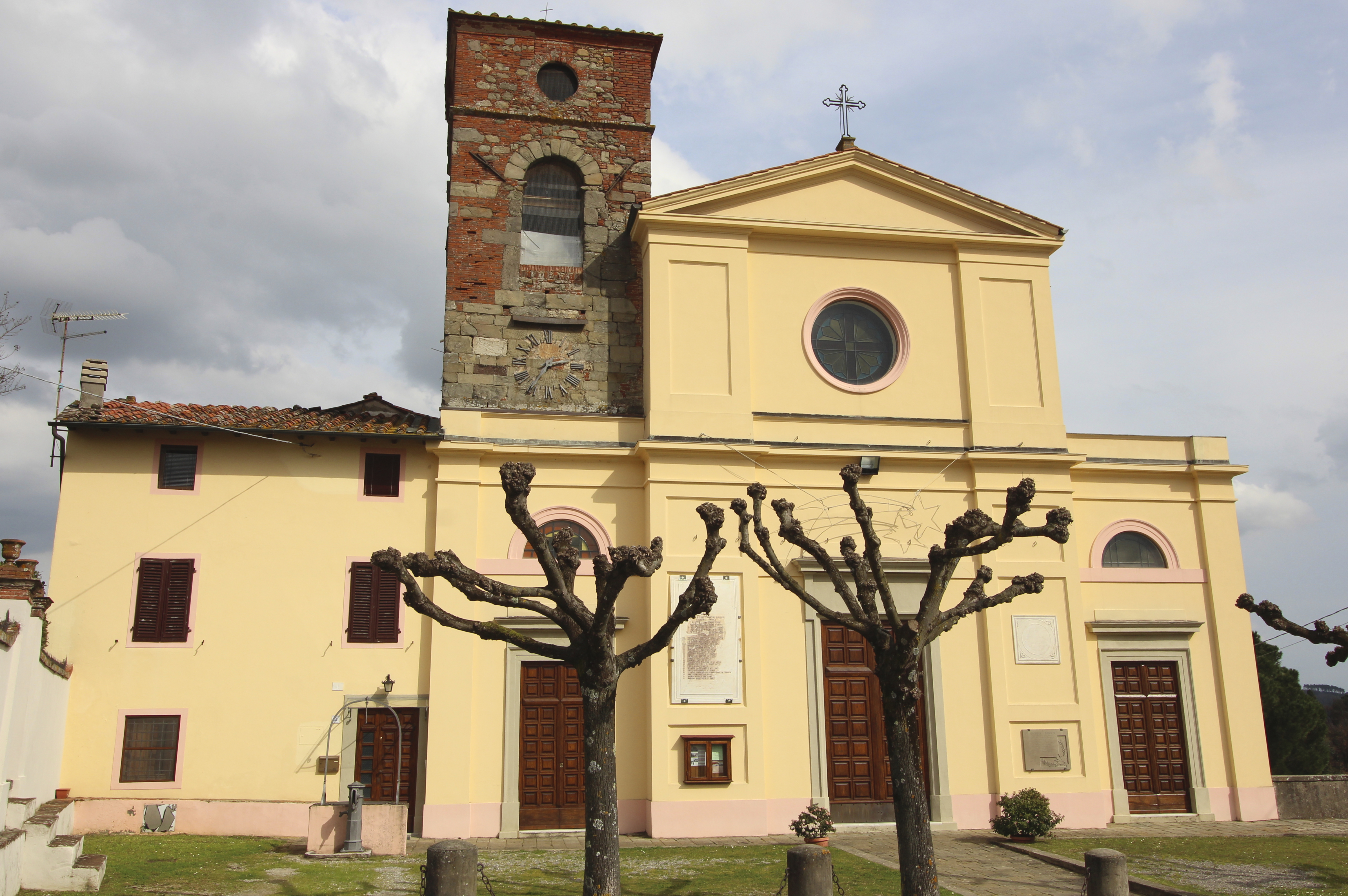 Church Santa Maria Assunta, Gragnano, hamlet of Capannori, Province of Pisa, Tuscany, Italy